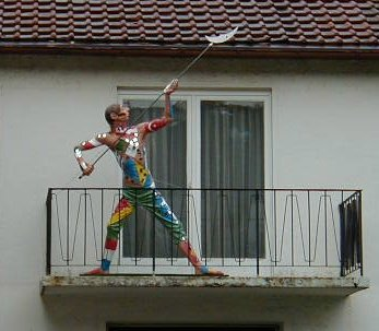 Heubach Mondstupfler Heubacher catching the Moon, Germany